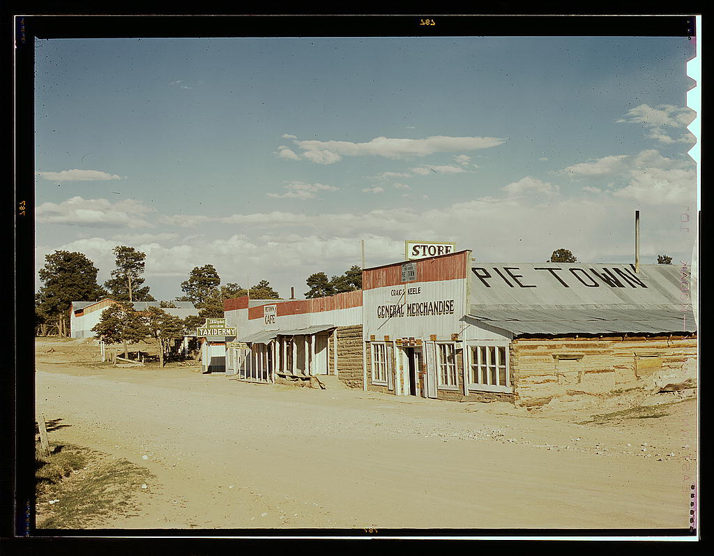 General Merchandise store, Main Street, Pie Town, New Mexico